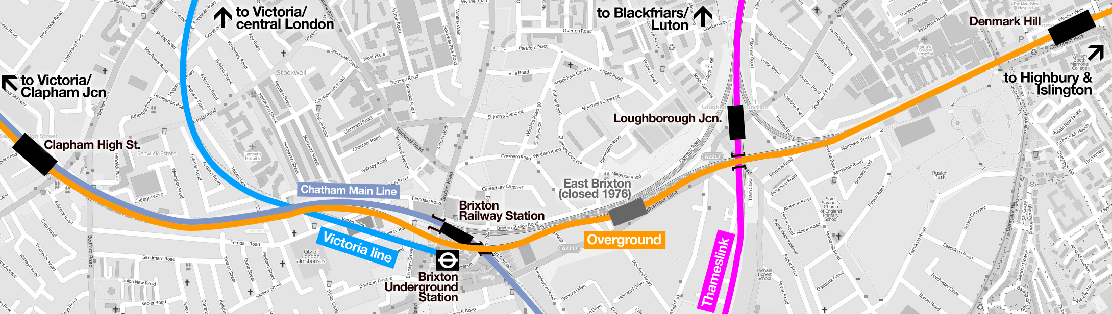 Map of passenger railway lines in and around Brixton, London, UK, showing the route of London Overground passing through Brixton without stopping. This map may be incomplete, and may contain errors. Don't rely solely on it for navigation.